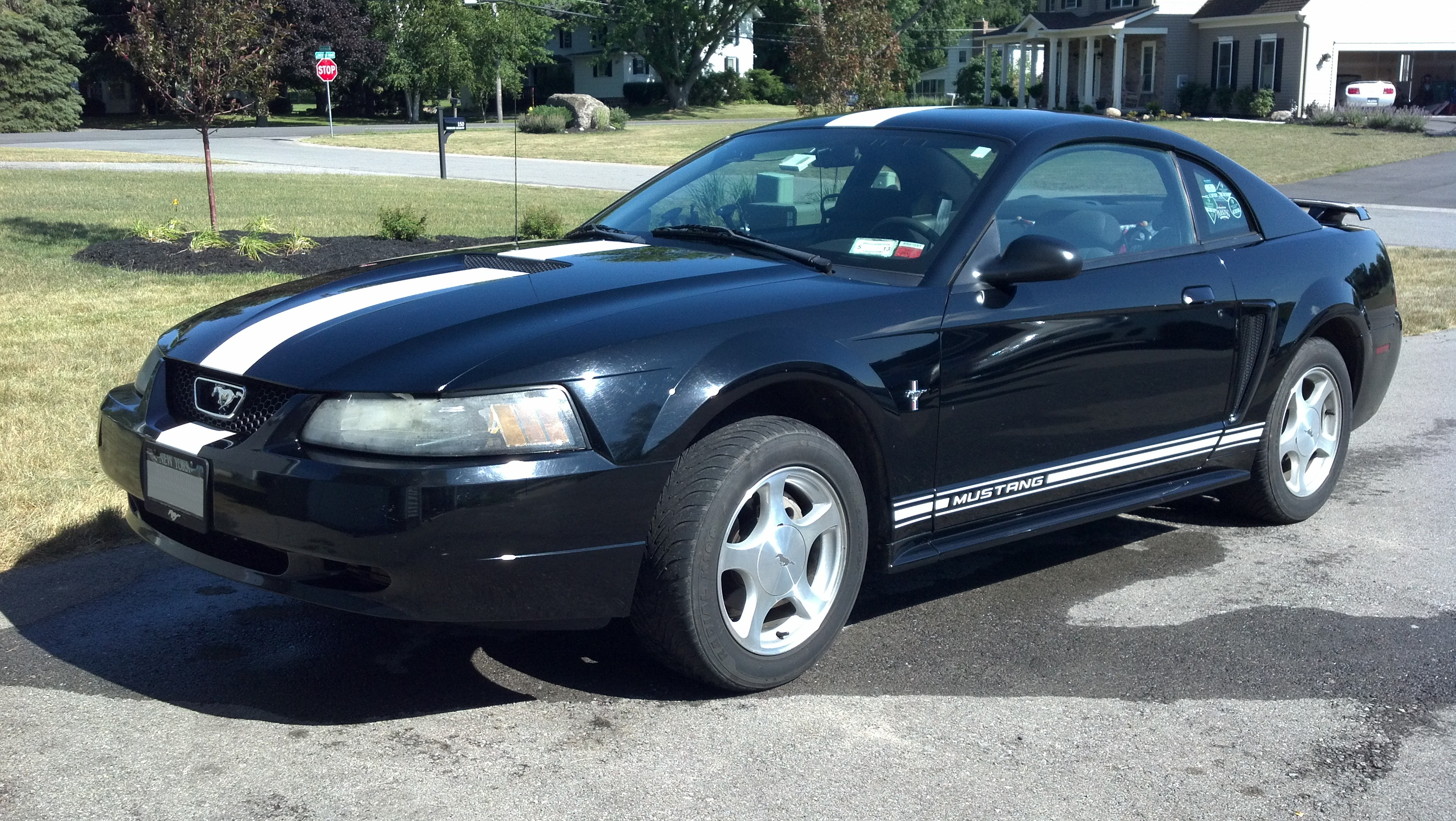 2001 Ford Mustang Premium Penfield, NY